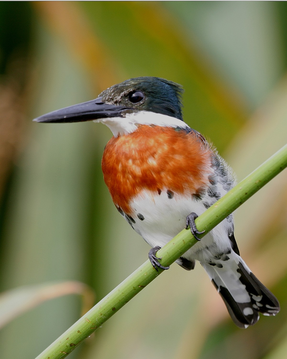 Green kingfisher Chloroceryle americana male in Ibera in marshes perched on reeds Location: Ibera wetlands, Argentina 2nd. April 2006